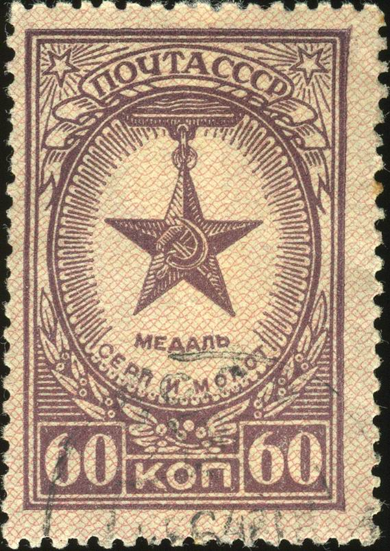 A USSR stamp, Awards of the Soviet Union